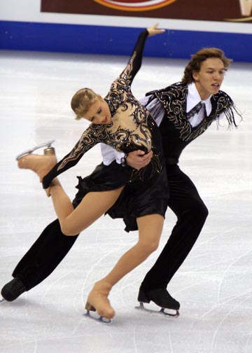 2008 Skate Canada; Ekaterina Bobrova and Dmitri Soloviev